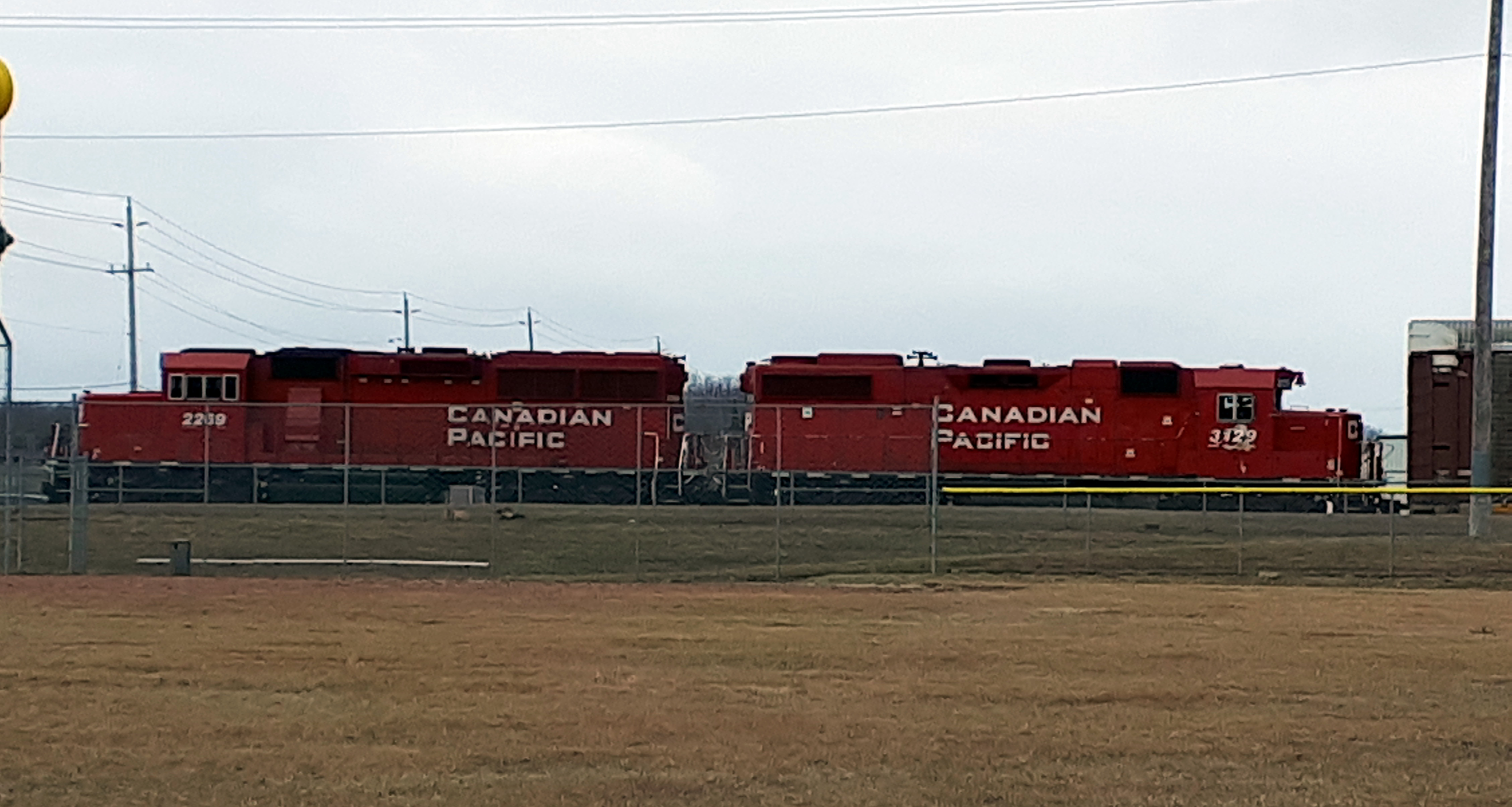 CP 2269 GP20C-ECO and 3129 GP38-2 switching at the Honda plant at Alliston, ON.